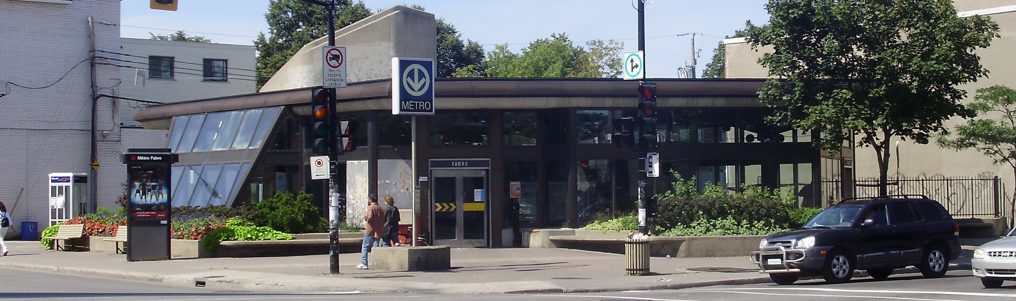 The Société de transport de Montréal's Fabre metro station in Montreal, Quebec, Canada.